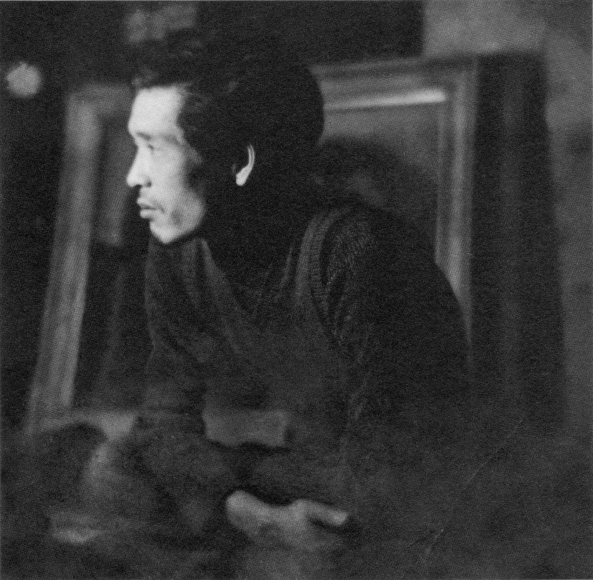 Photograph of Aimitsu